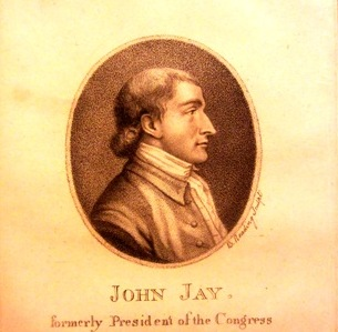 Based on an engraving by Pierre Eugene du Simitiere